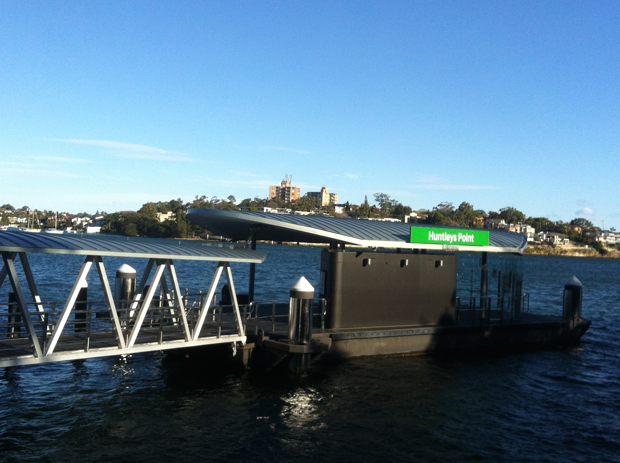 Upgraded